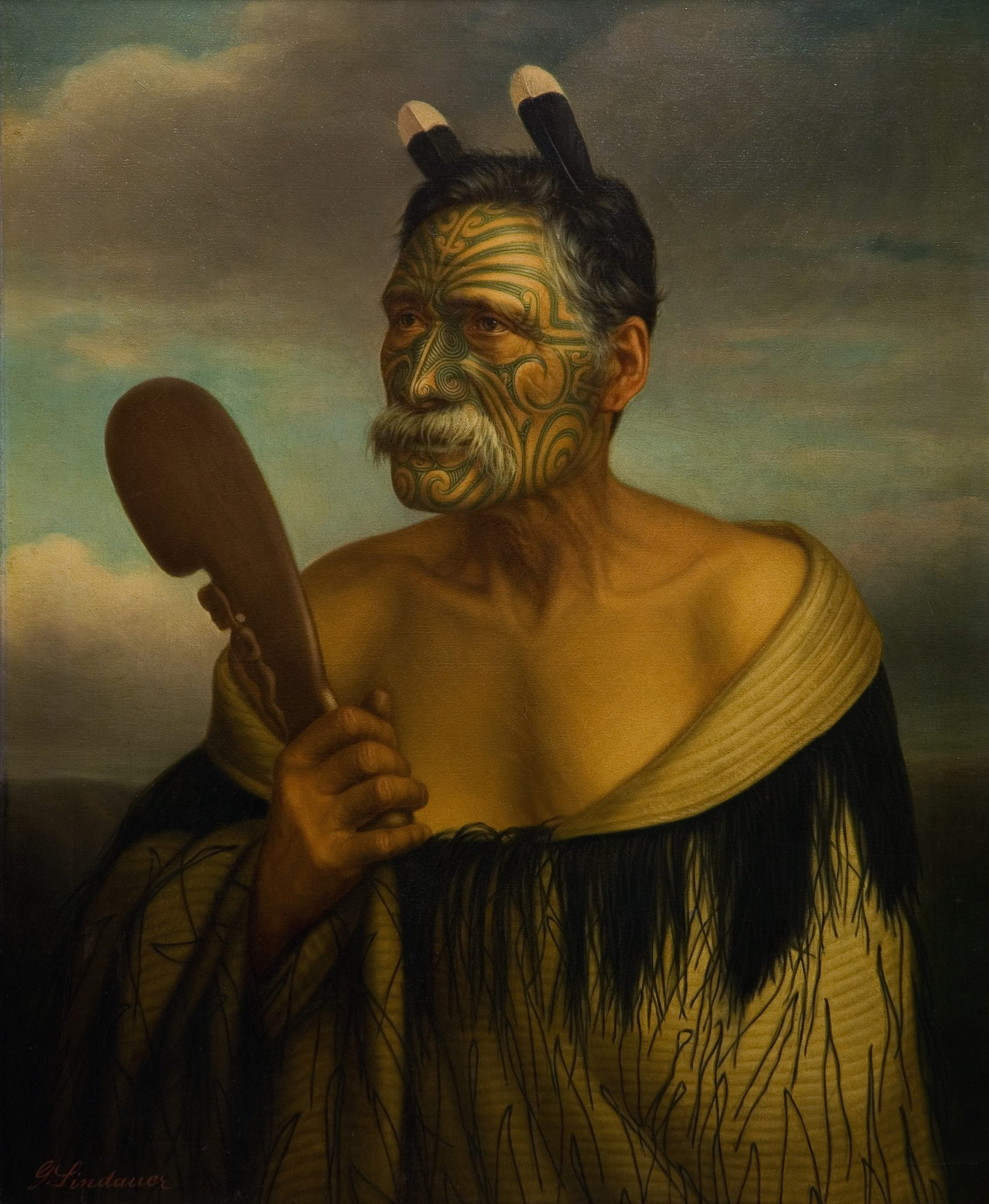 A portrait of Kewene Te Haho, by Gottfried Landauer.